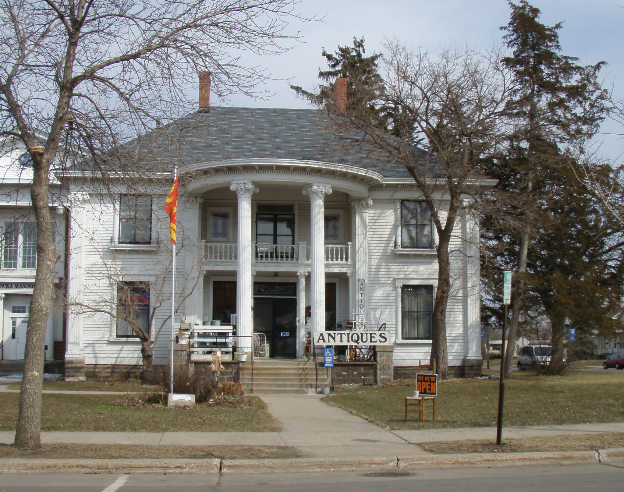 Colonial Hall and Masonic Lodge No. 30 in Anoka, Minnesota.